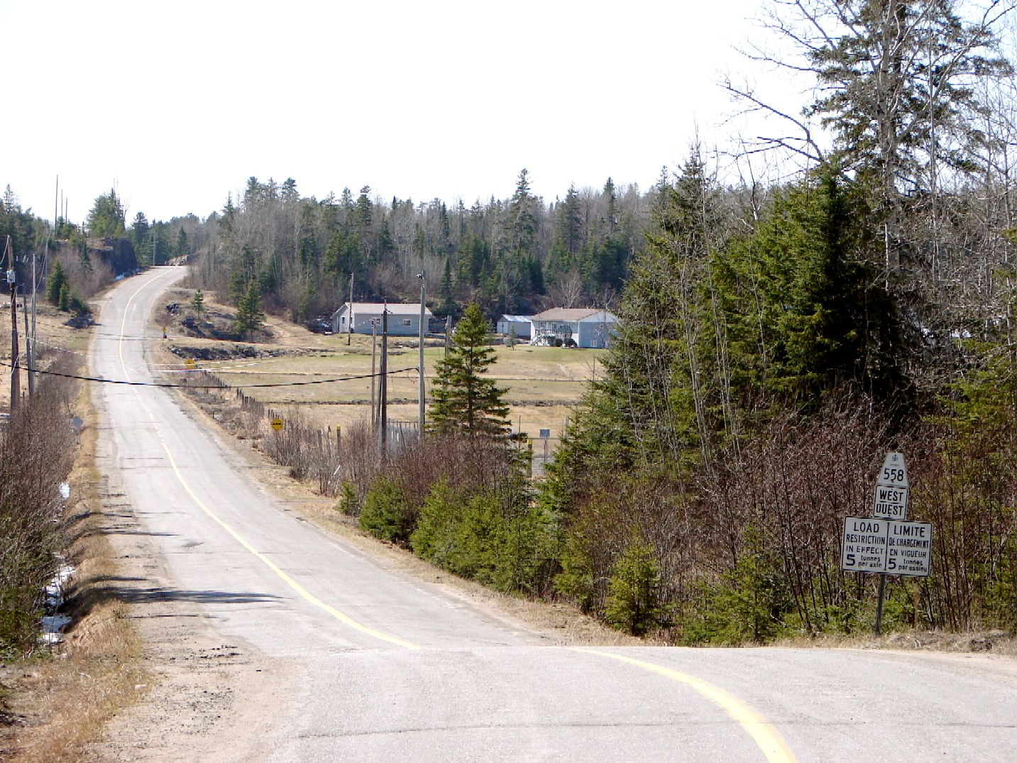 Highway 558, Timiskaming District, Ontario, Canada